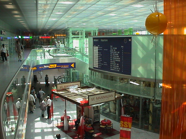 Entrance hall of the station Ostbahnhof ("East Station") in Berlin